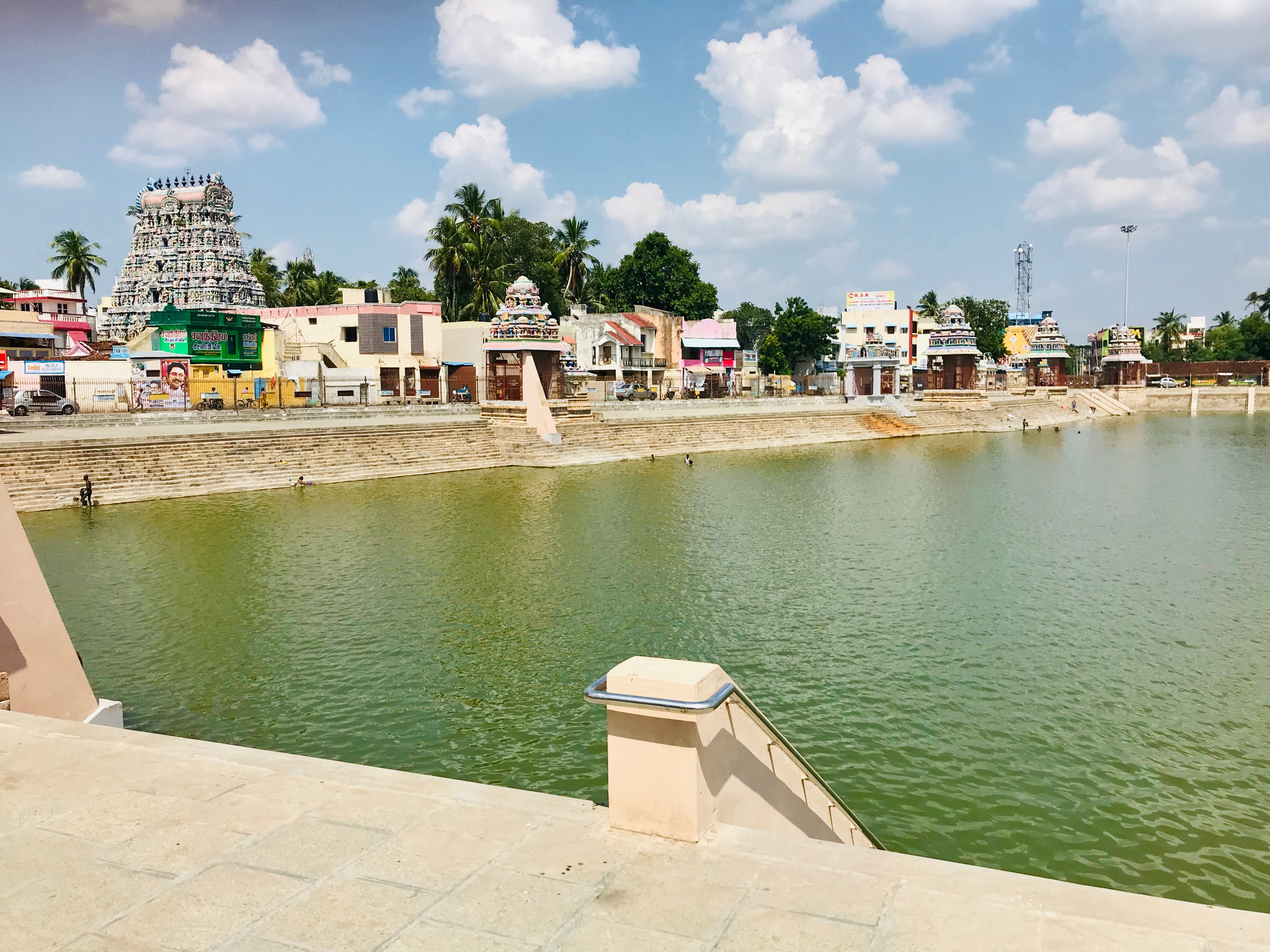 Kumbhakonam is a historic and holy South Indian city and region in Tamil Nadu. Along with its many Hindu temples, it has the Mahamaham tank where the equivalent of the northern Kumbh mela has been celebrated once every 12 years. Millions gather to take a dip in the Hindu calendar month of Magha, particularly in the 12th year (mahamaham festival). The kund – holy tank – is believed to be the gathering place for nine sacred river goddesses of India, along with Shiva. These rivers are: Ganga, Yamuna, Sarasvati, Narmada, Godavari, Krishna, Tungabhadra, Kaveri and Sarayu. Shiva is remembered and revered as the Creator (not just destroyer) , based on the legends in Periya Purana. The tank is large and features ghat-like steps on all sides. Small Shiva temples surround the tank. The main temple gopura near the tank features an inscription, which summarizes the legend associated with the Kumbh mela at this tank. For more details: Diana Eck, India: Sacred Geography, pages 156–157